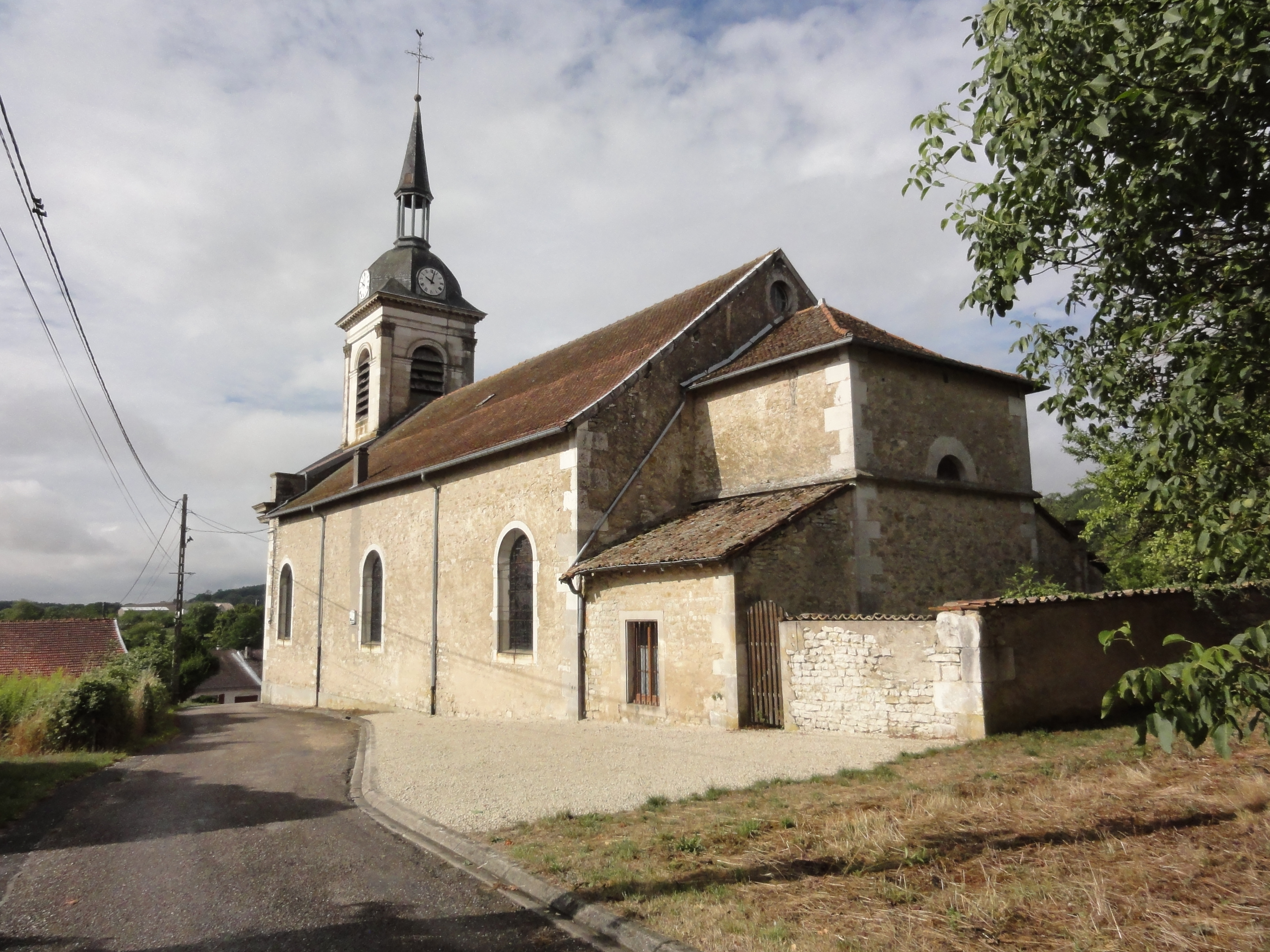 Ménil-la-Horgne (Meuse) église